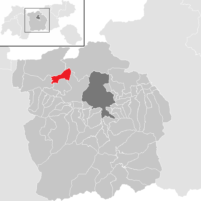 District Innsbruck Land